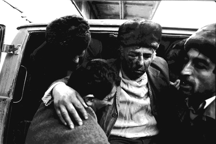 Azerbaijanian man who saw Khojali massacre. Agdam.